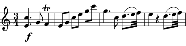 Joseph Haydn, Symphony No. 33 C major, first movement, bar 1-4, first violin